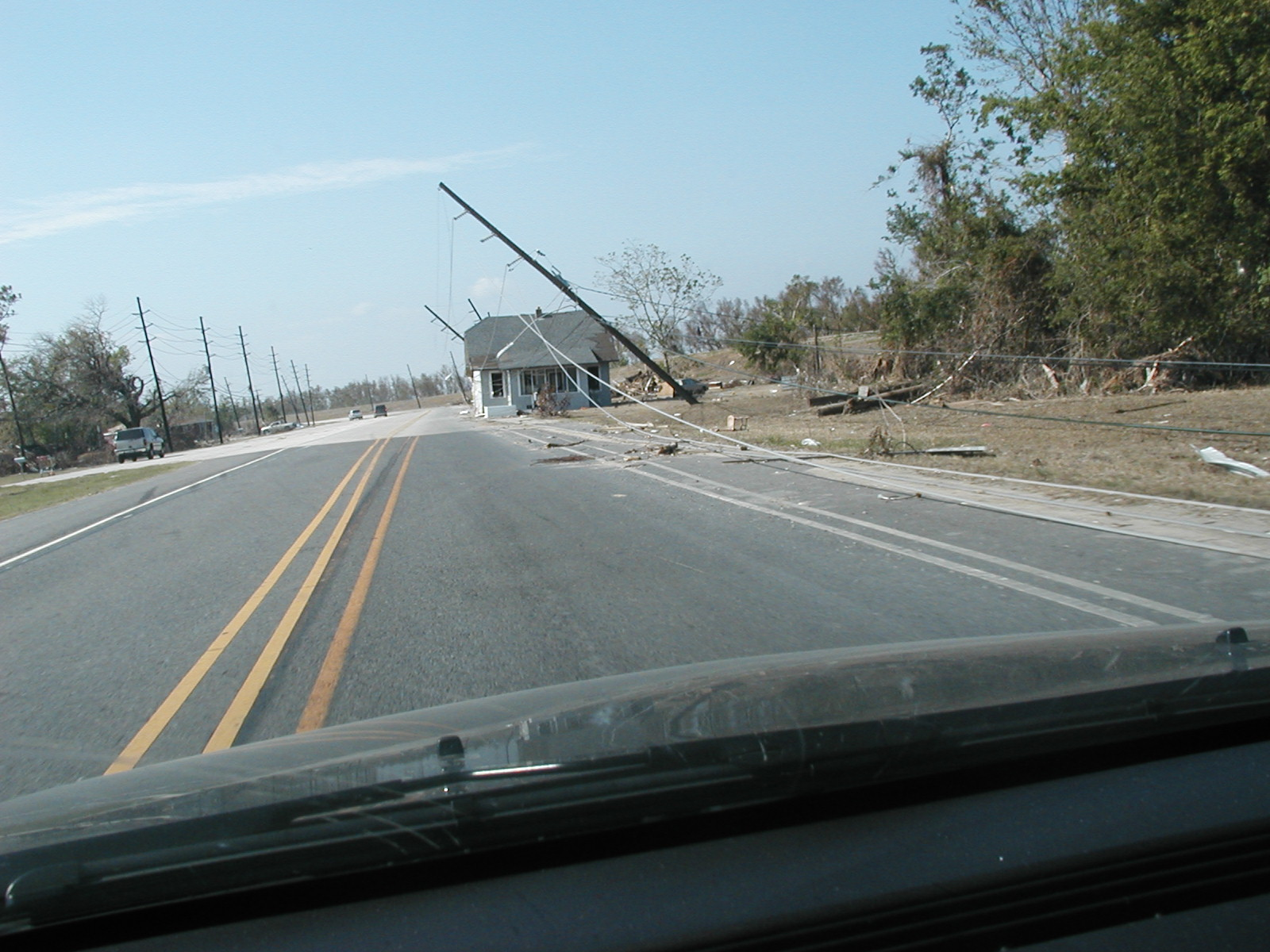 Hurricane Katrina aftermath in Plaquemines Parish, Louisiana. House in road at Happy Jack near Port Sulphur.